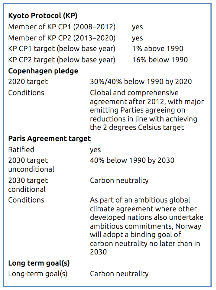 Highlights Norway's ongoing commitments to international agreements in order to limit global warming to two degrees Celsius.